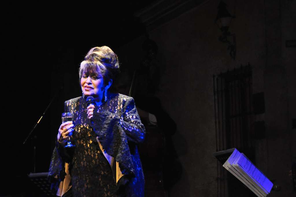 Virginia Luque, Tango singer. At The Viejo Almacén, San Telmo, Buenos Aires, 2009.